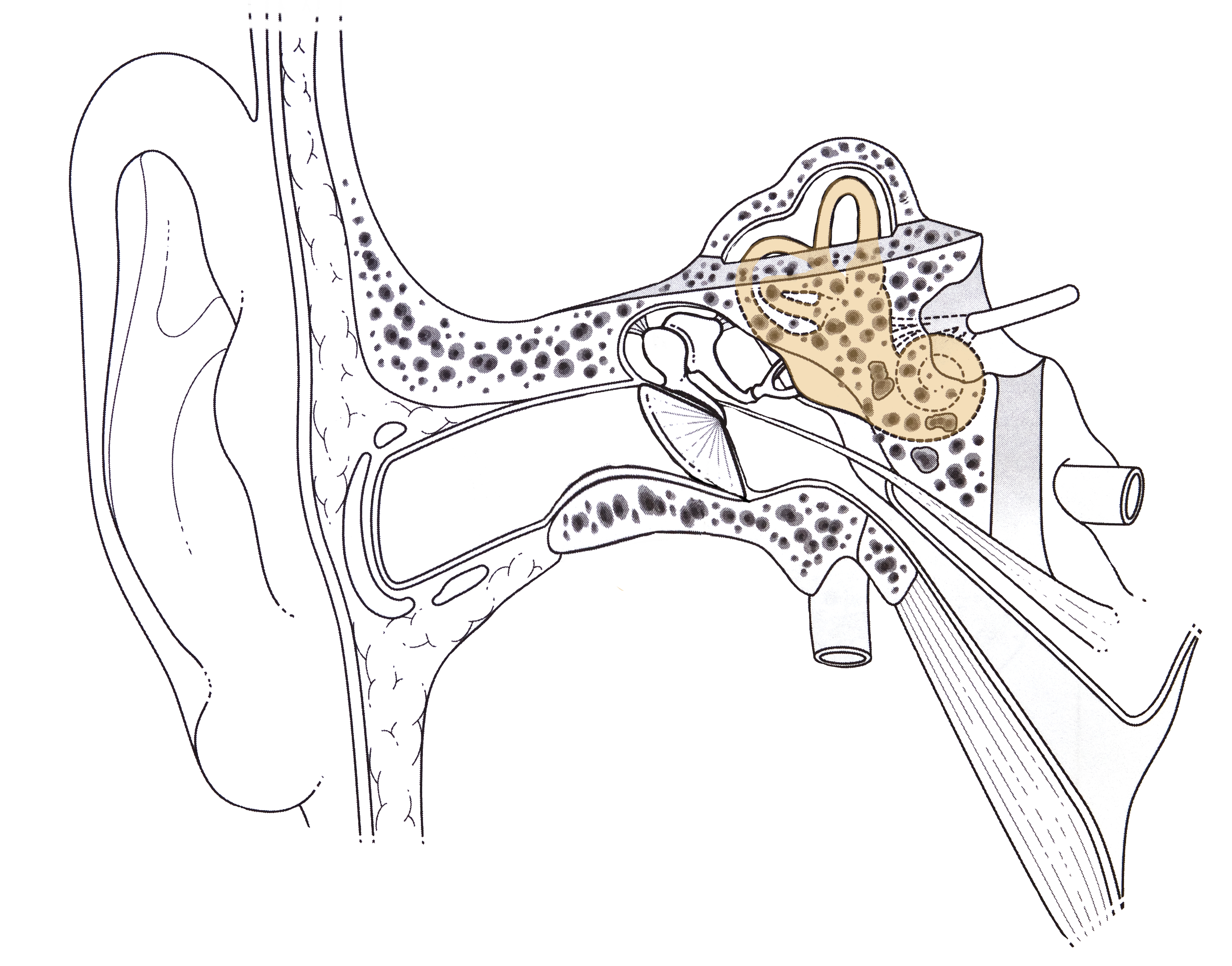 Inner ear - Schema